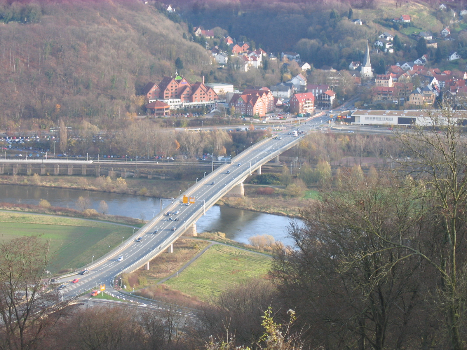 View from Wilhelm I monument near Porta Westfalica, District of Minden-Lübbecke, North Rhine-Westphalia, Germany.